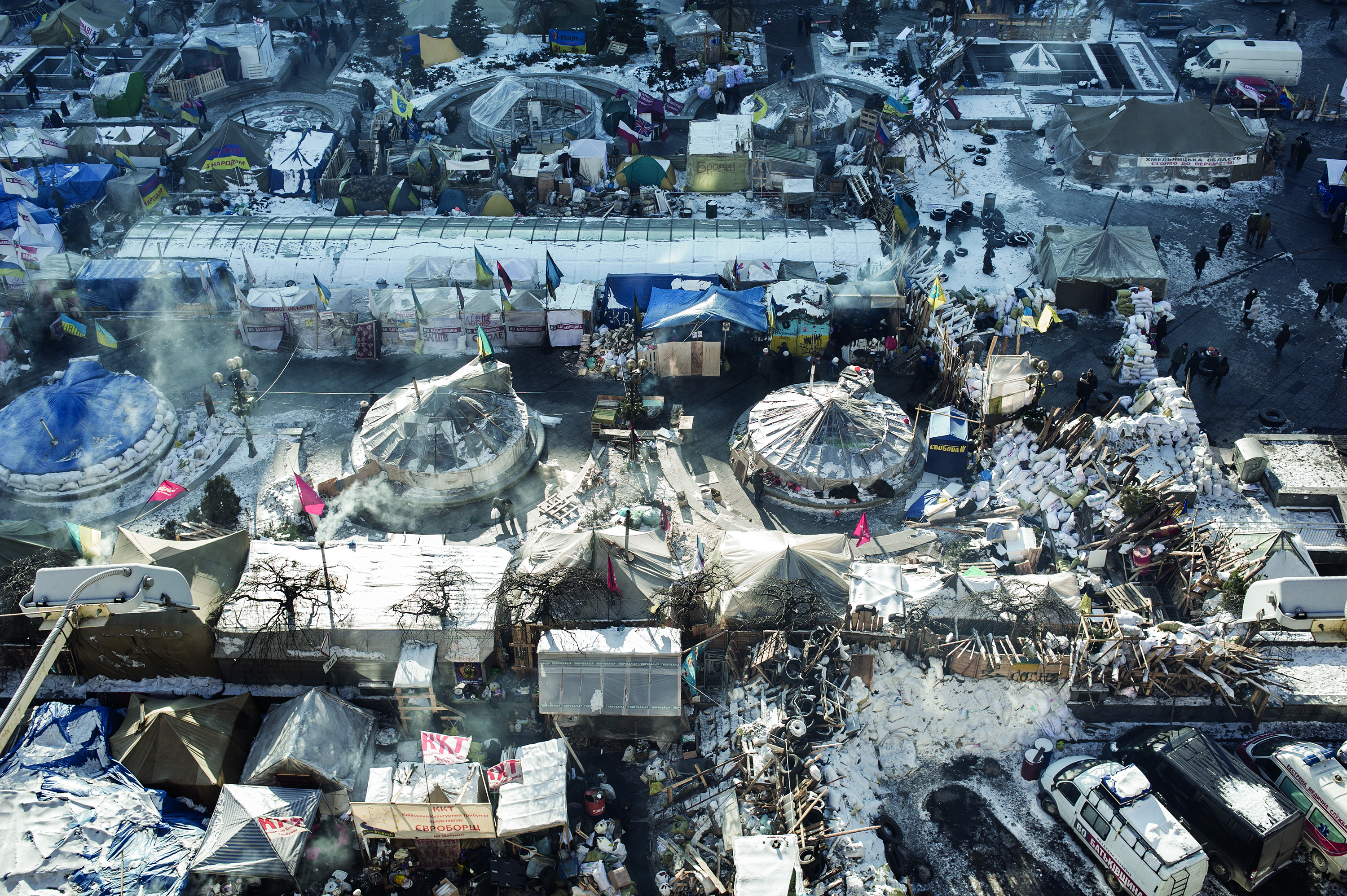 Over view of the occupation of central Kiev by protestors in early February of 2014